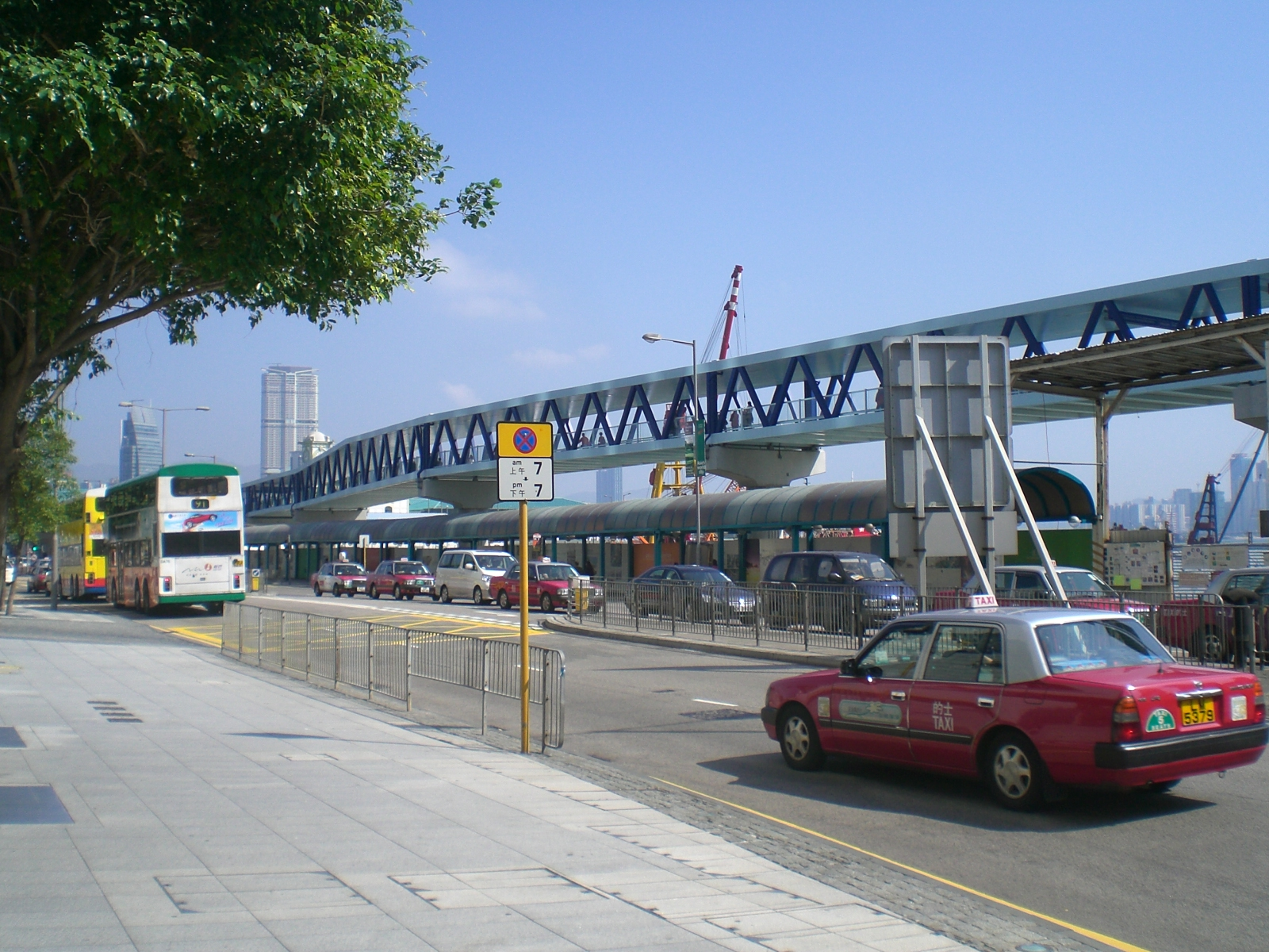 近中環碼頭的中環民耀街, Man Yiu Street, Central, Hong Kong